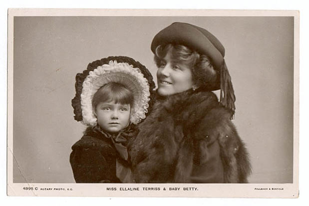 Ellaline Terriss and her daughter Betty